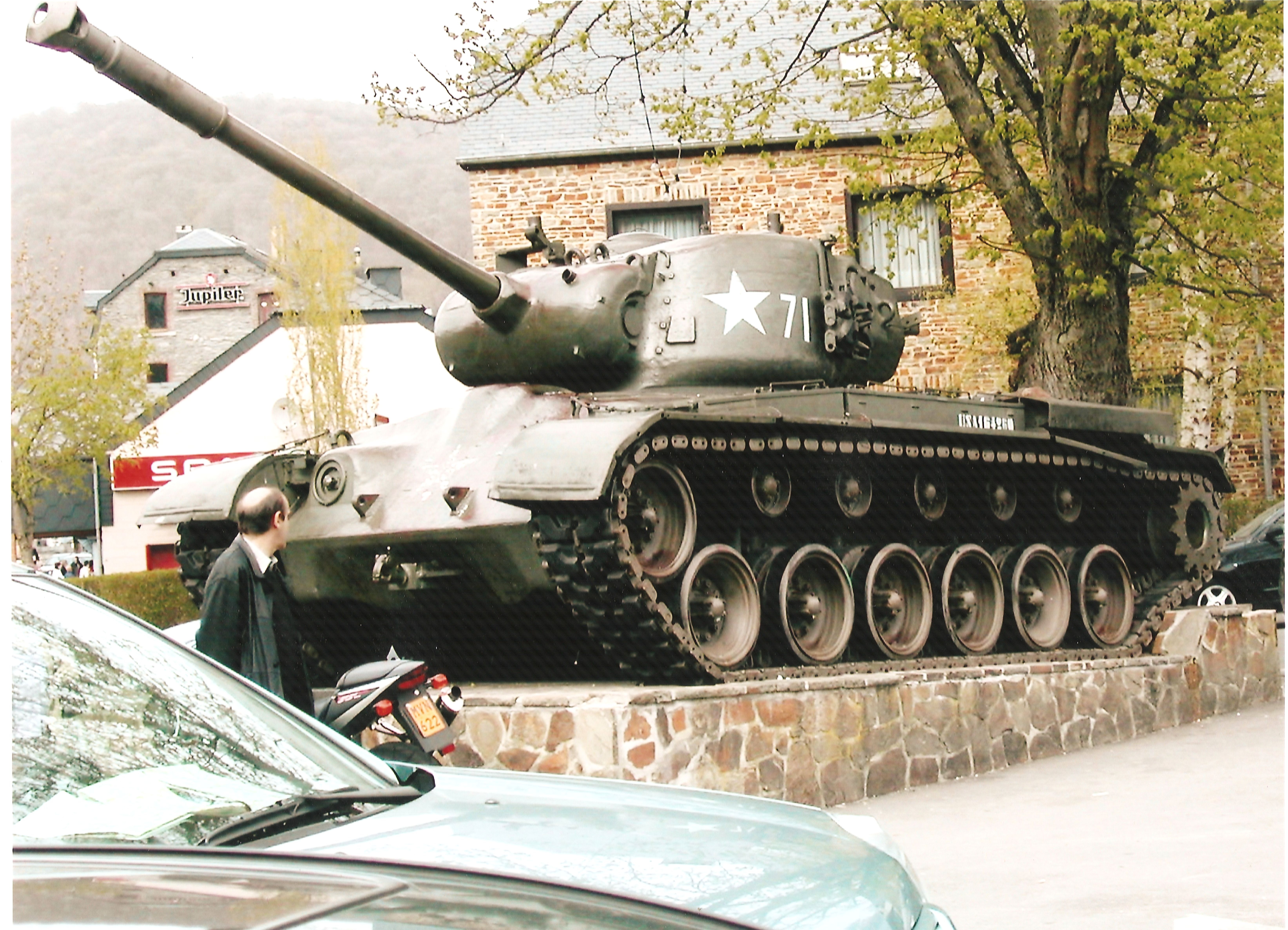 M26 'Pershing' tank (2003) — NB According to this is an M46 Patton.This tank was replaced by a Sherman in 2004 (see Category:M4A1 Sherman in La Roche-en-Ardenne)